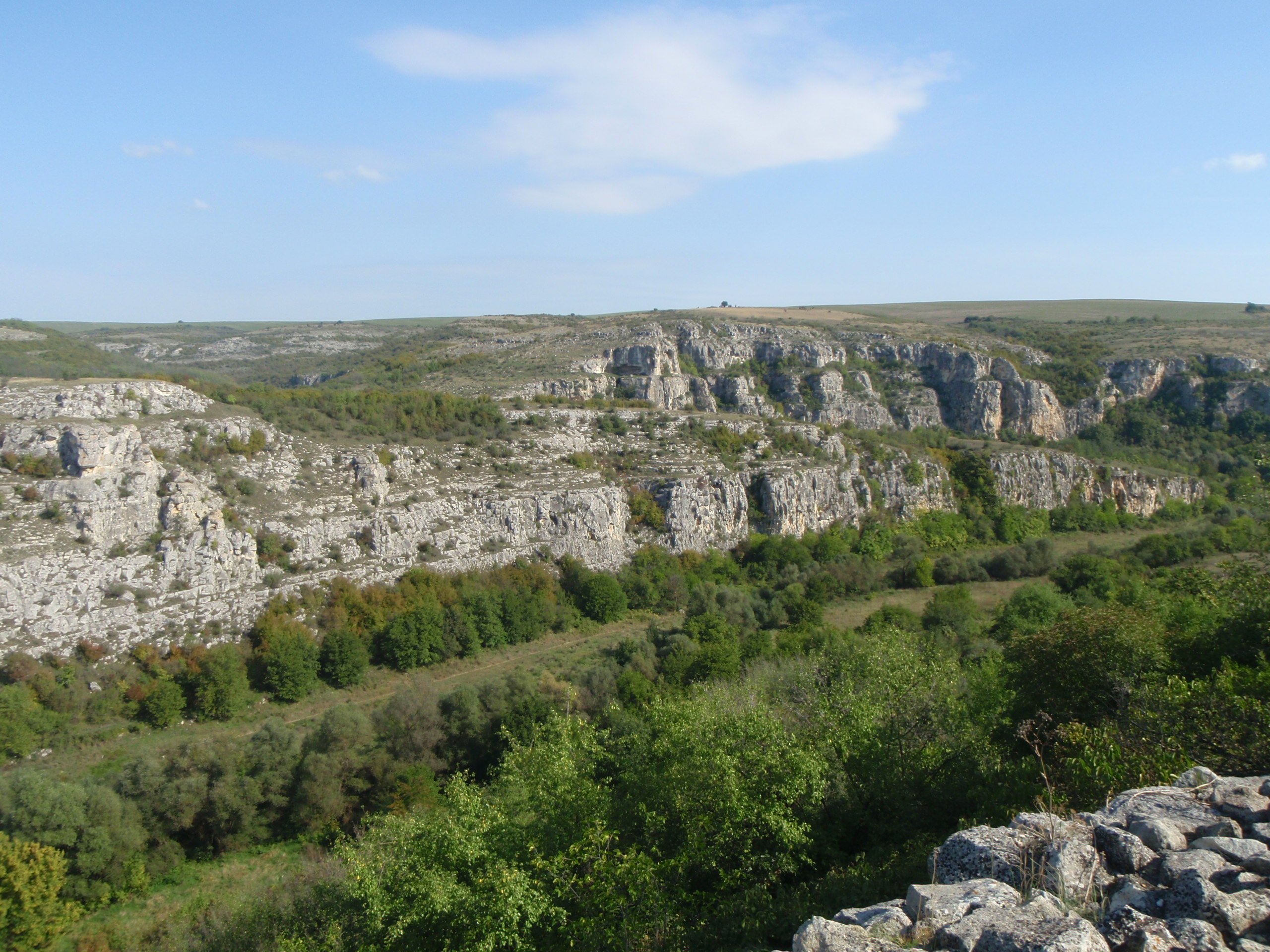 View from stronghold of Cherven towards the valley of Cherni Lom